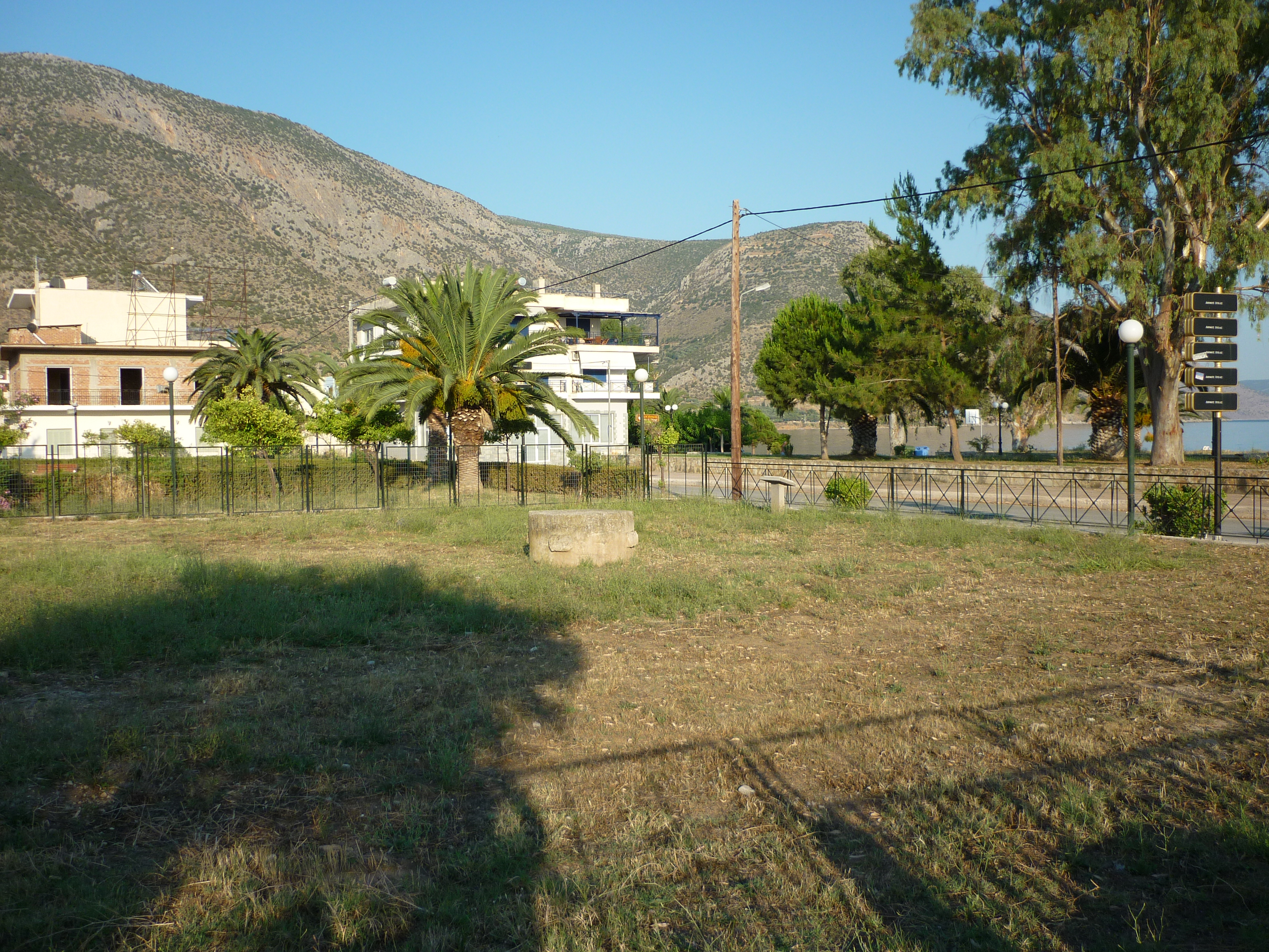 Kirra, Fokida, Greece: Half-finished cylindrical stone at the shipyards at the main square. It was designated as column drum at the Temple of Apollon at Delphi.